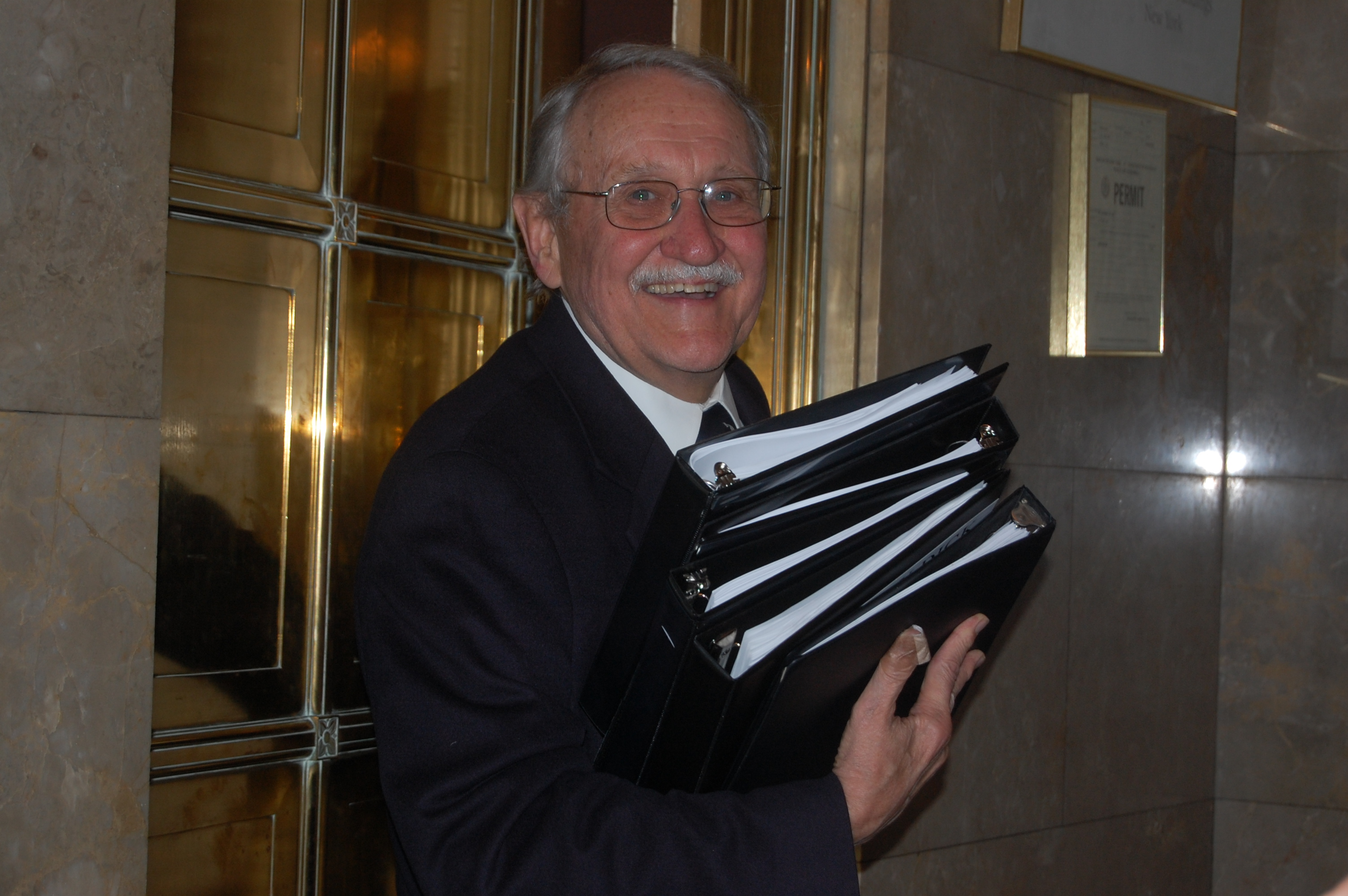 Photo of Gordon Hyatt, taken by Jan Goldstaff on October 15, 2012, using a Nikon D40 camera.